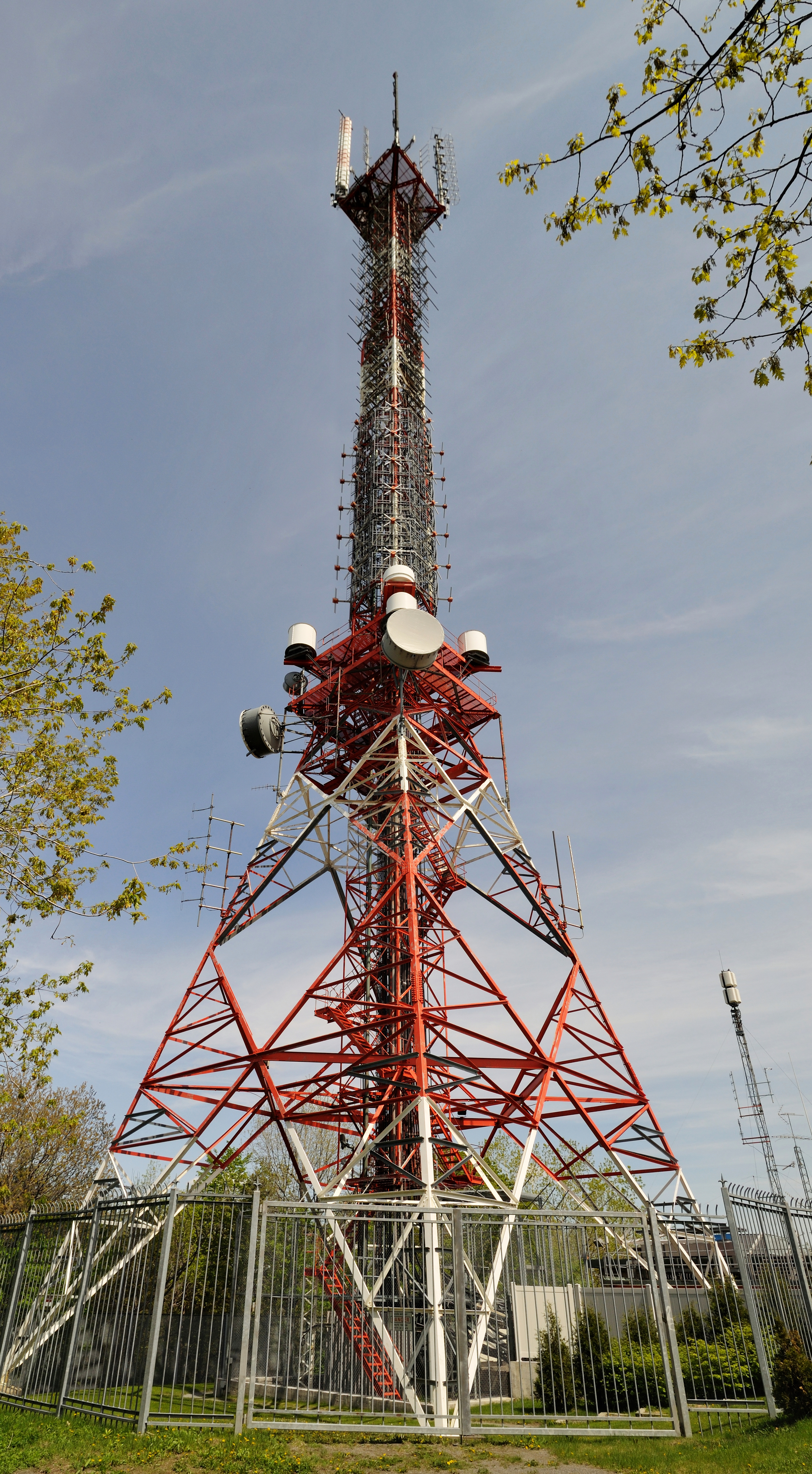 Tower on Mont Royal